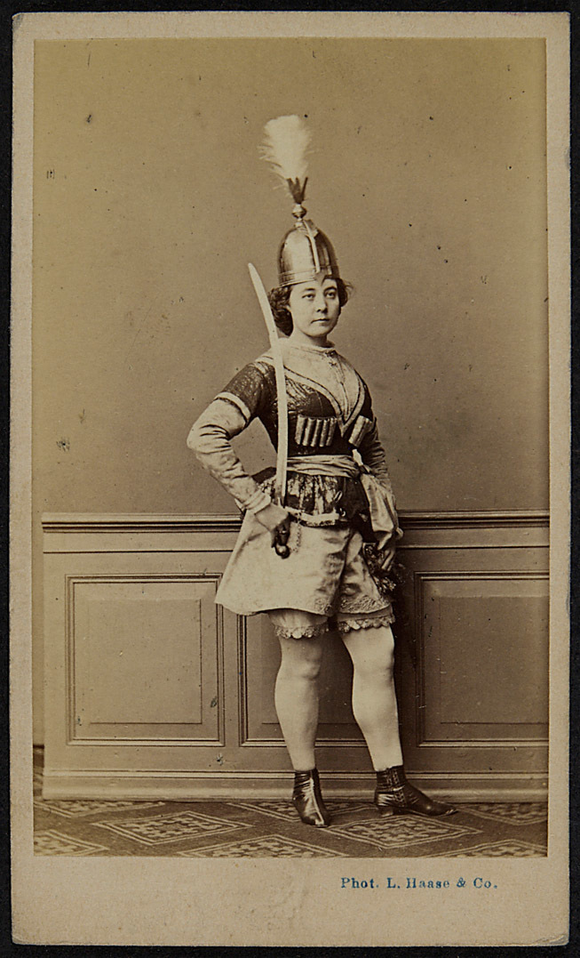 German singer Elise Härting as Férosa in the 1864 Friedrich-Wilhelmstädtisches Theater production of Offenbach's Les Géorgiennes, photograph by L. Haase & Comp., Berlin